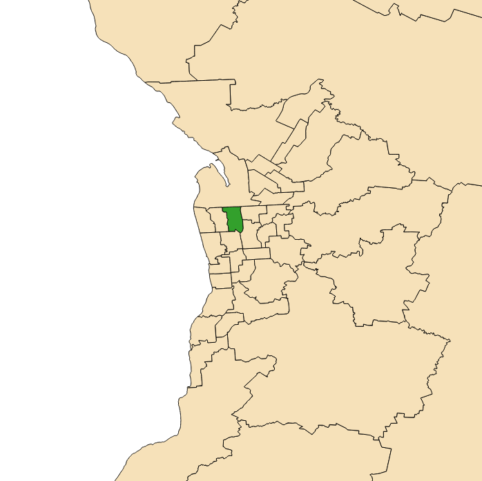 Electoral district 2018 boundaries shown in green